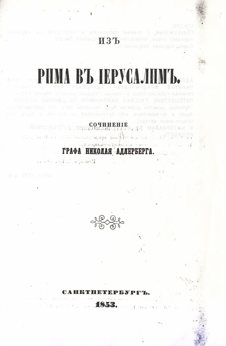 book cover of From Rome to Jerusalem (Из Рима в Иерусалим) (published in 1853 by Nikolay Adlerberg